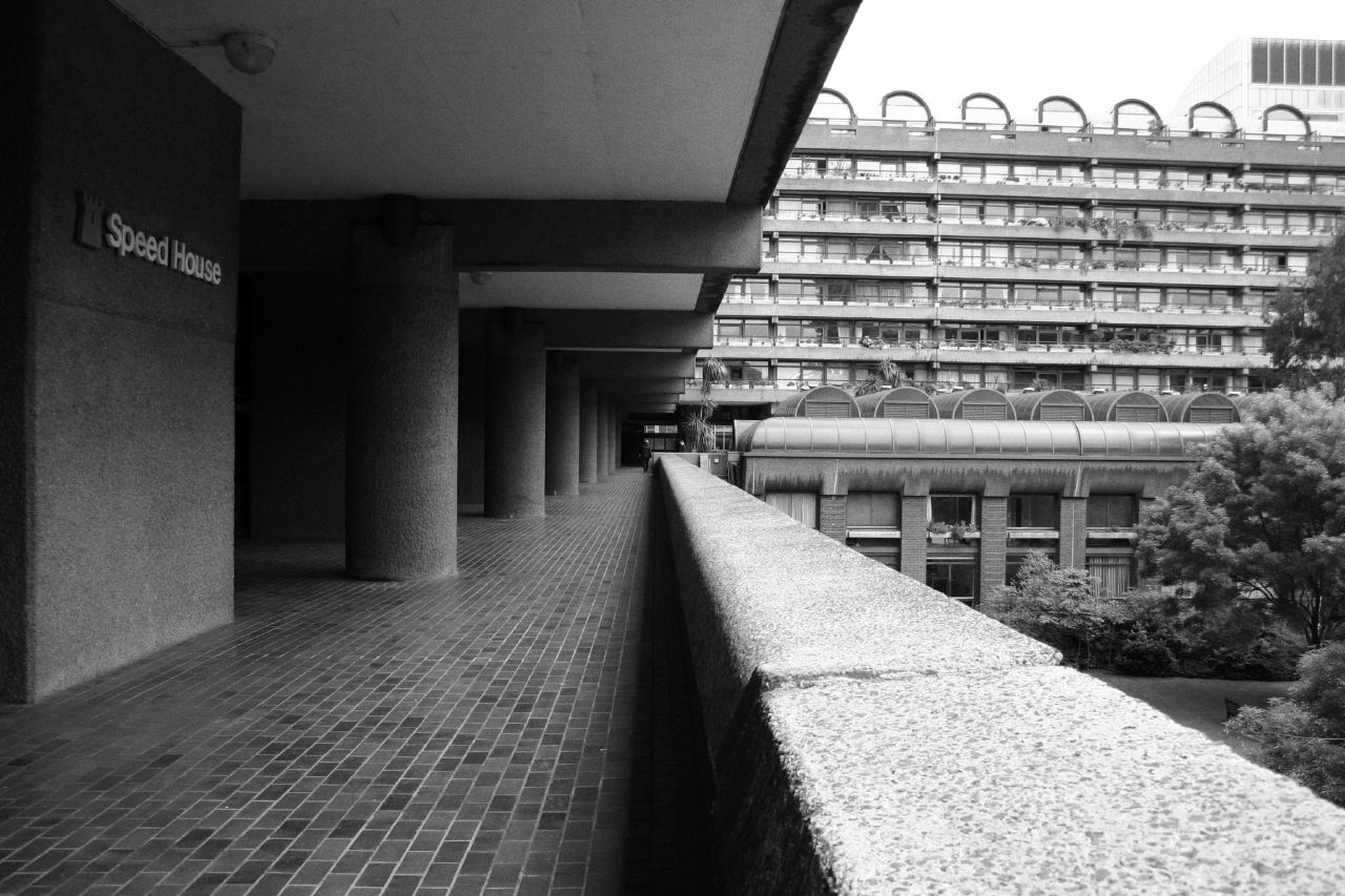 Barbican Estate